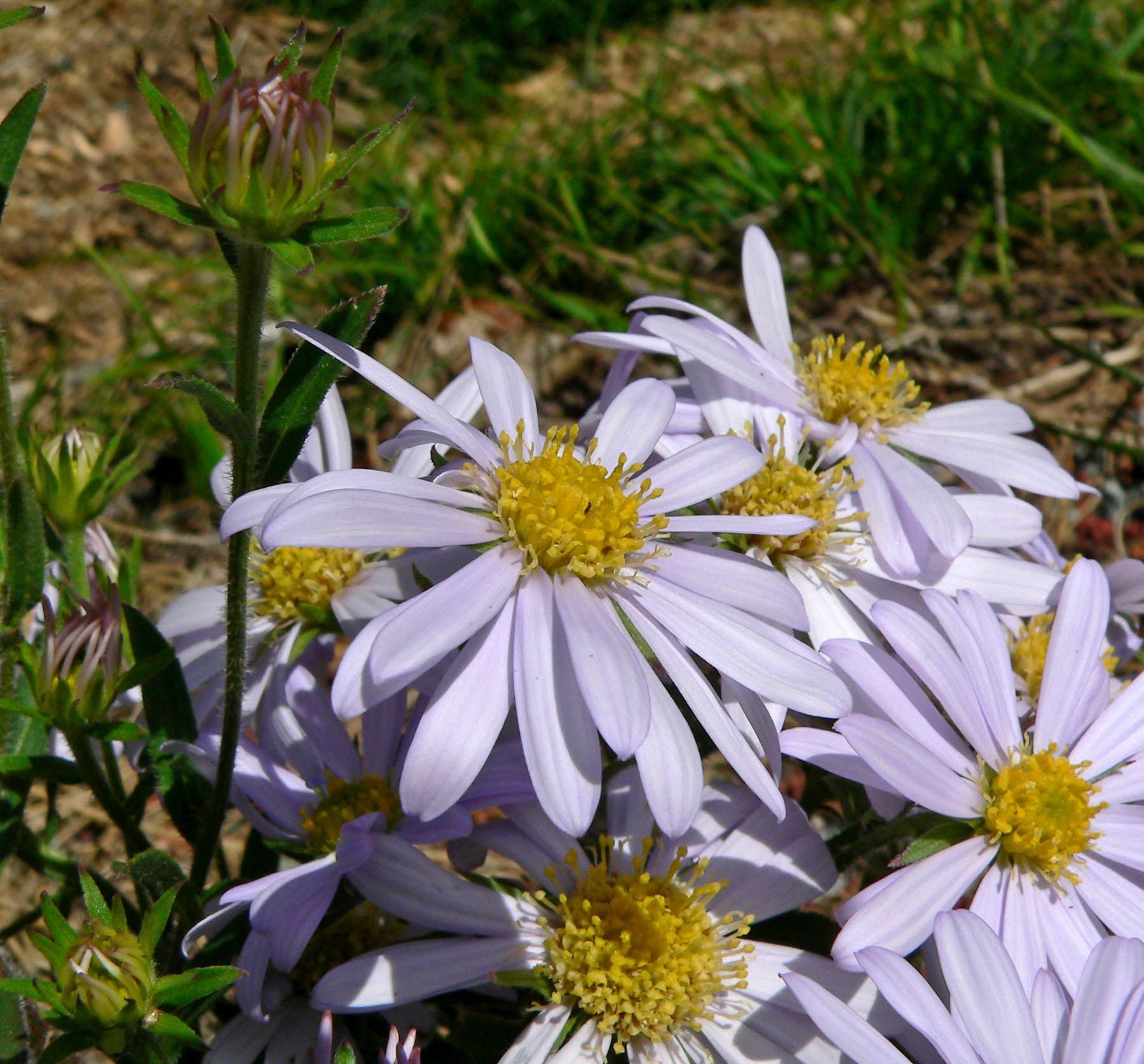 Aster pekinensis at the University of California Botanical Garden, Berkeley, California